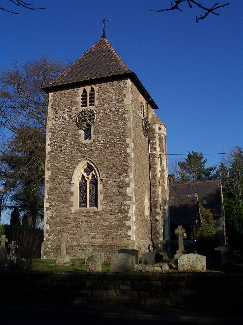 St Andrew's parish church, Bredenbury, Herefordshire, seen from the west.